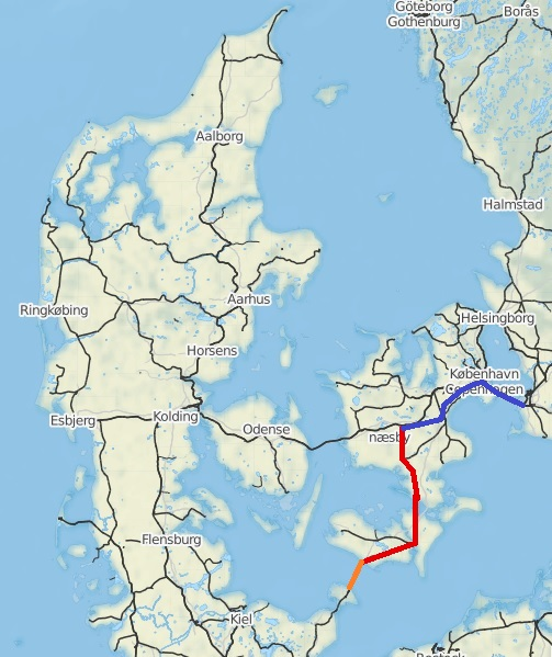 The planned high speed rail lines in Denmark. The Fehmarn Belt Fixed Link (orange), Ringsted-Fehmarn (red) , Copenhagen-Ringsted and the Oresund bridge (blue). All planed for at least 200 km/h